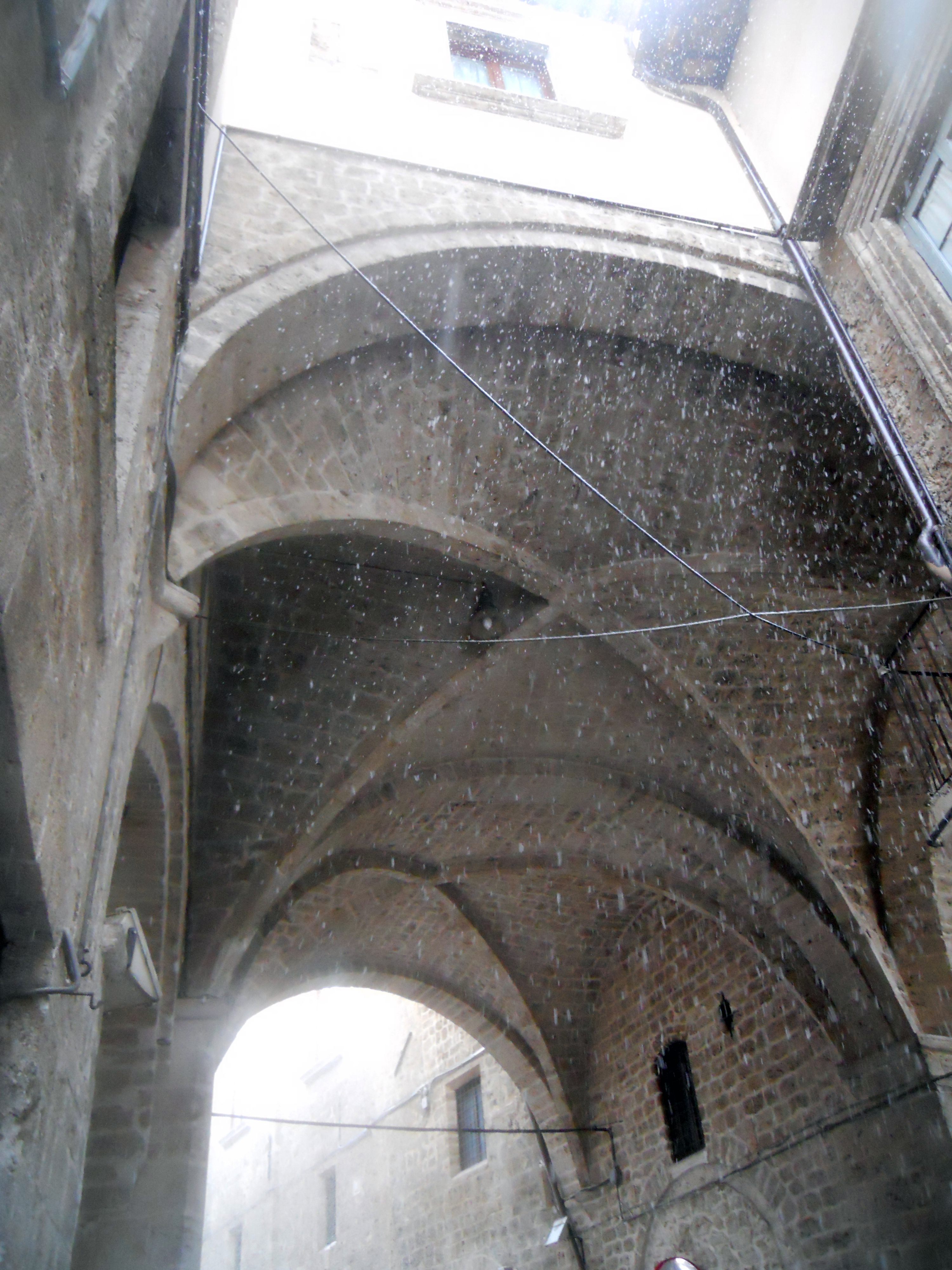 Bishop's arch during 3rd february 2012 snowfall - Rieti, Italy